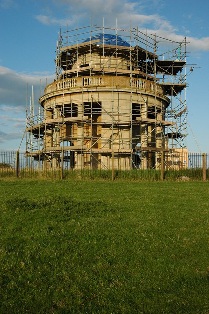 The Panorama, Croome Park, Croome d'Abitot, Worcestershire, undergoing restoration